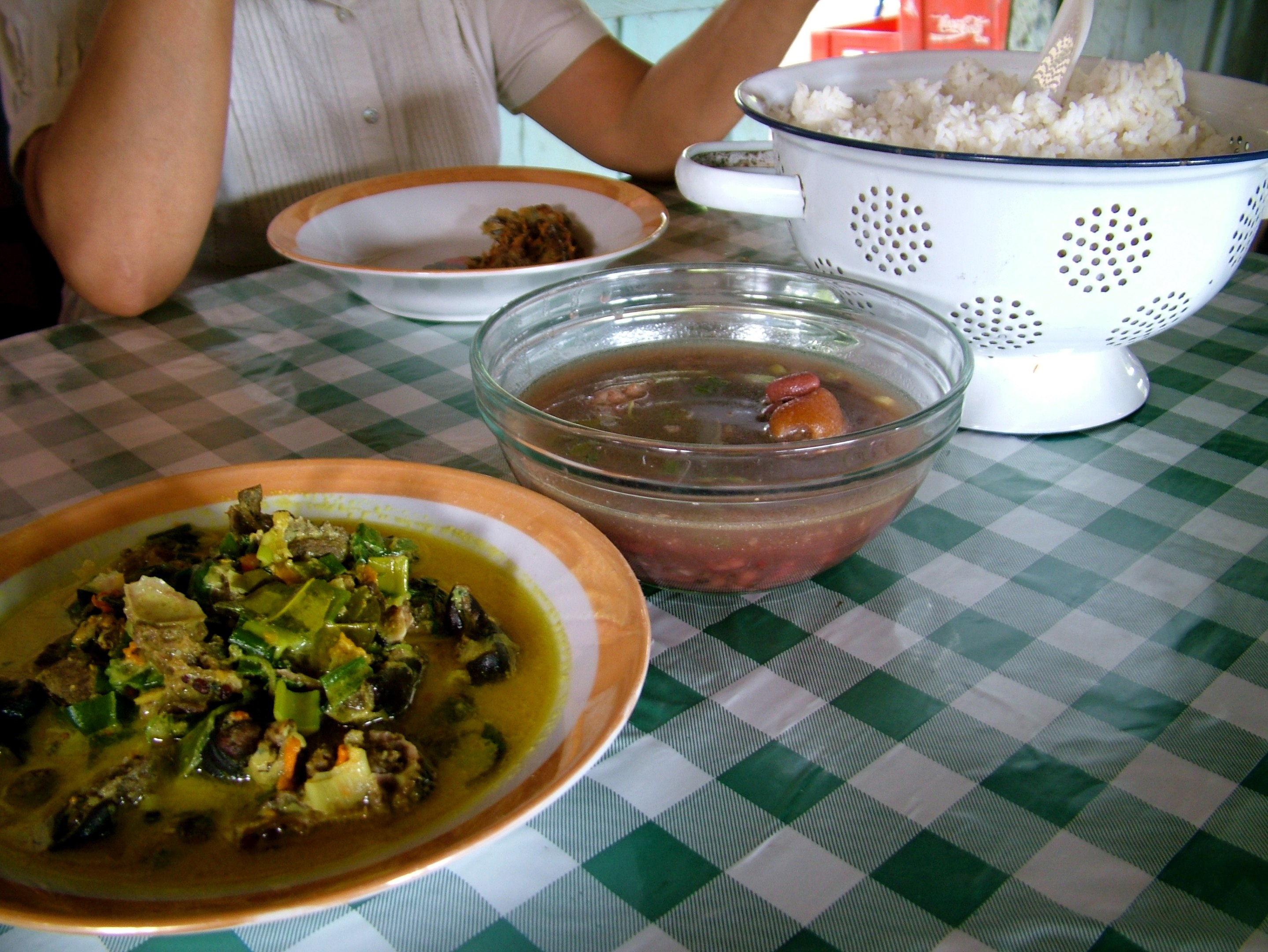 Stewed bat (on left), soup, and rice.